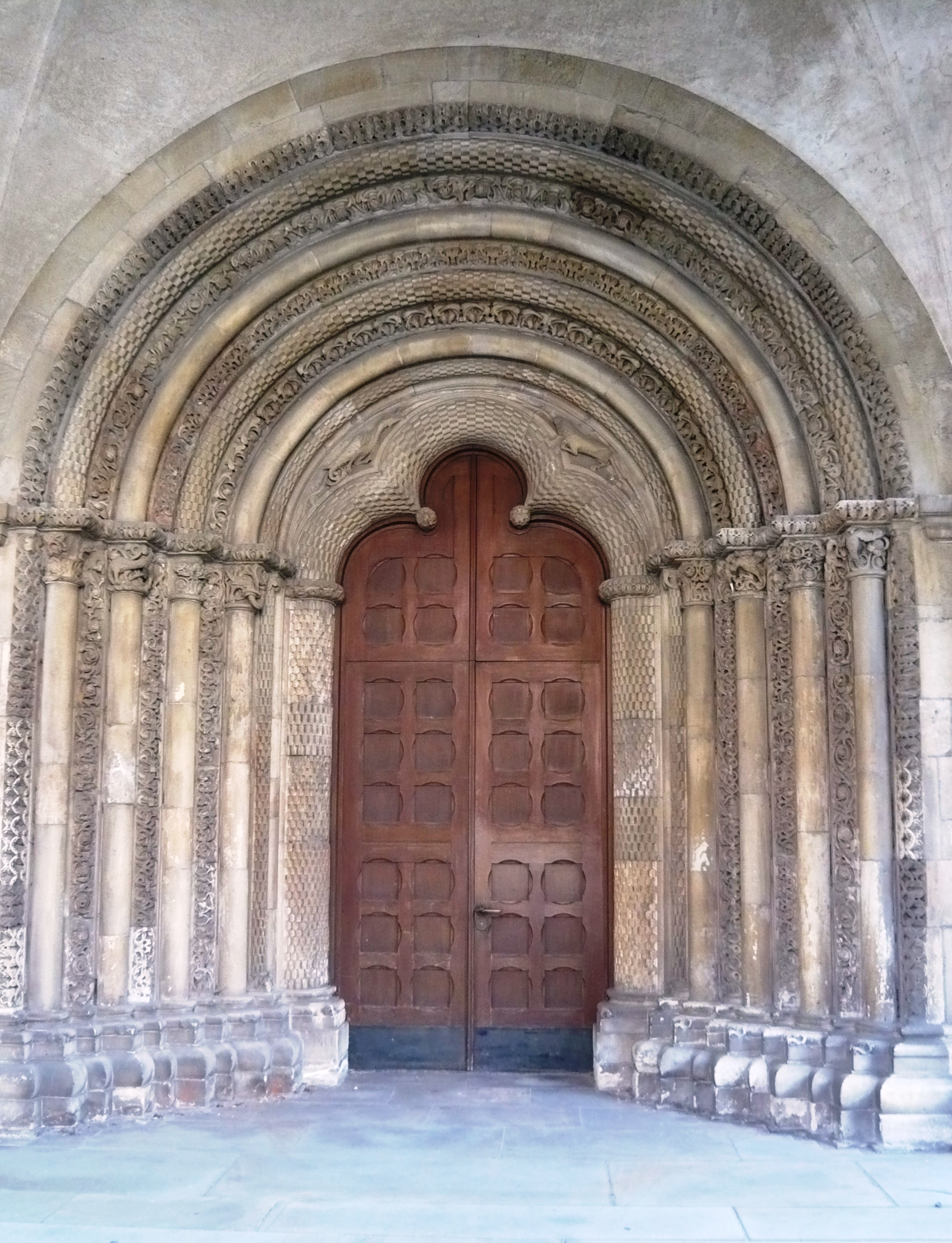 Doorway St. Jakobikirche in Coesfeld Germany dating from the period that Coesfeld was granted city rights (the town charter is dated 1197). The church was bombed in WWII but the doorway remained. A new church was built after the war, but the door is kept as a symbol for St. James pilgrims on the way to Santiago de Compostela in Spain (a map of the old St. James way and explanation are on a commemortative plaque).